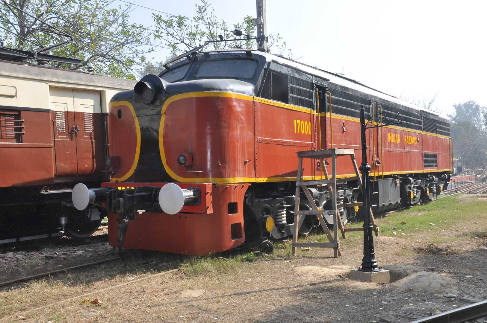 A Indian locomotive class WDM-1 preserved at the national rail museum, New Delhi